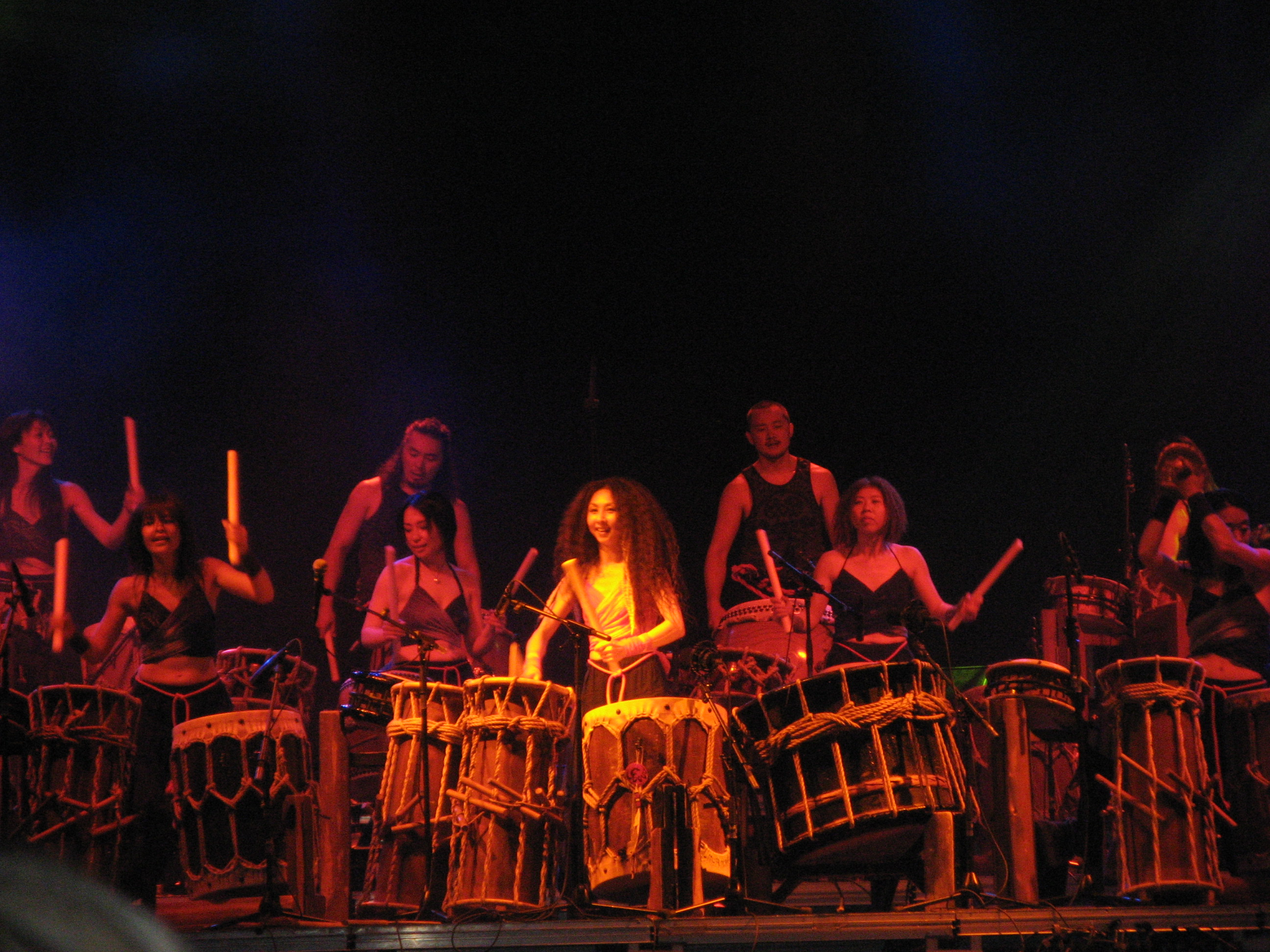 Photograph taken during a performance by GOCOO at Beleuvenissen in Leuven